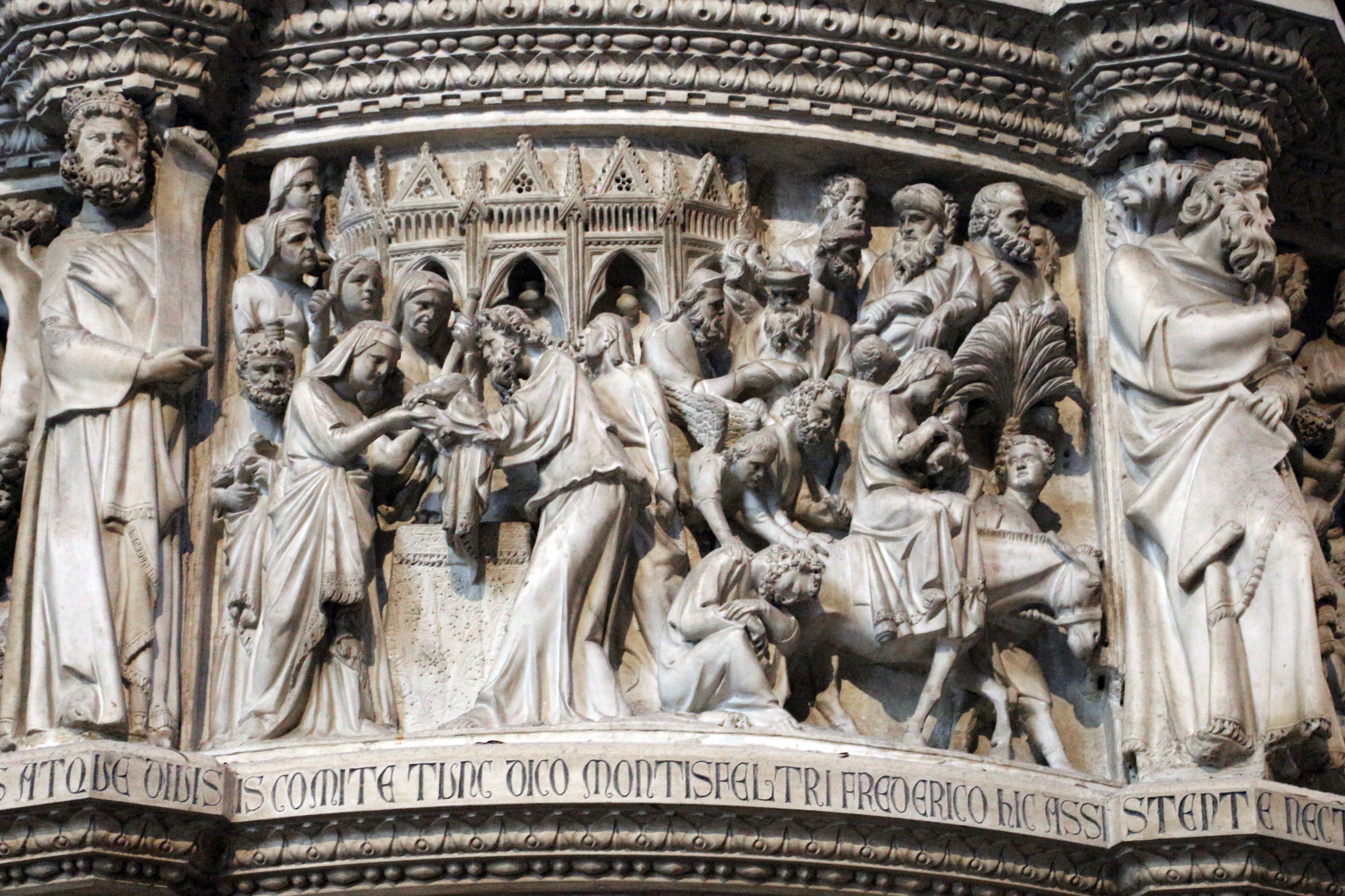 Pulpit of the Cathedral (Pisa)